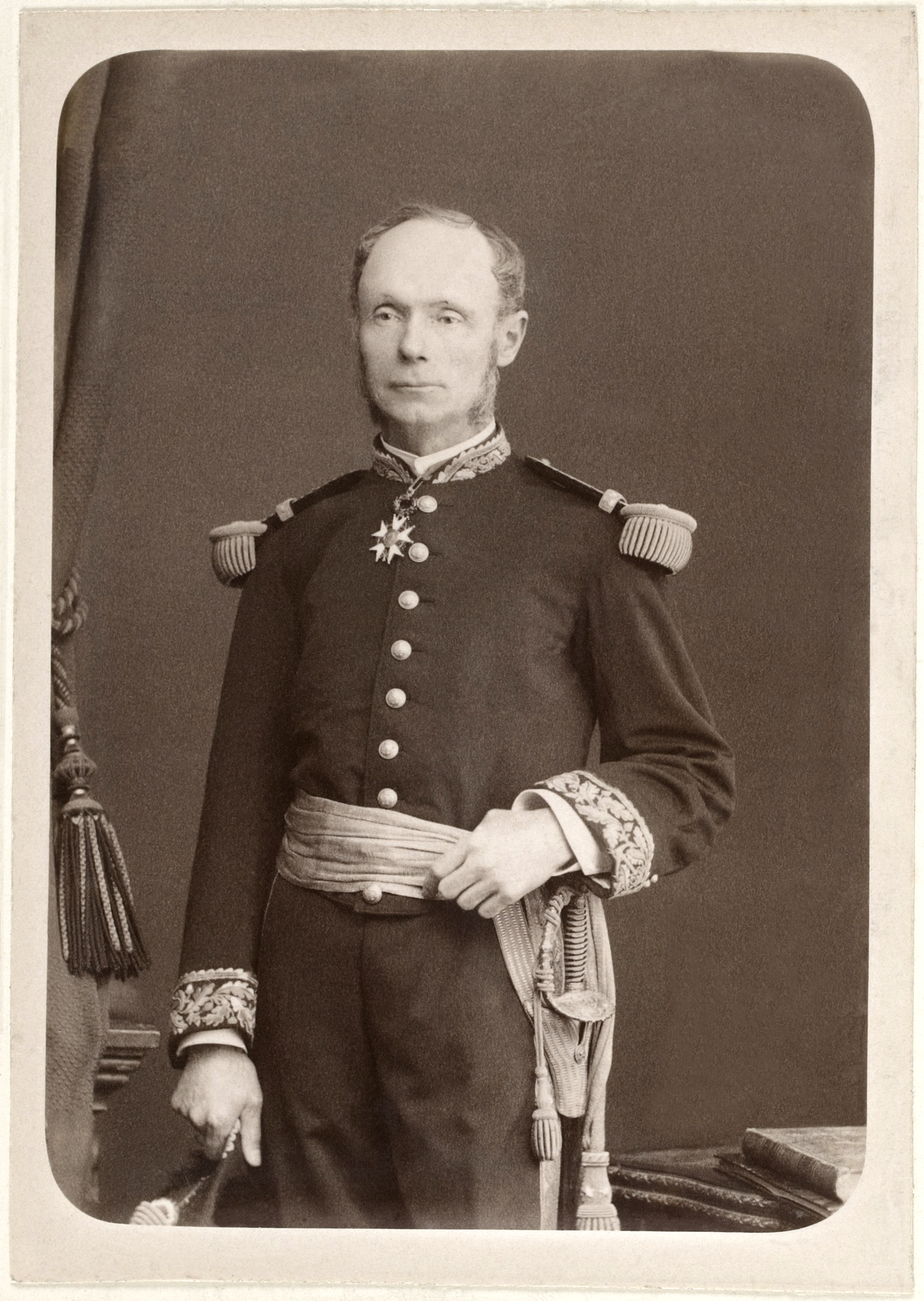 Amédée Courbet (1827-1885). French admiral and explorer.